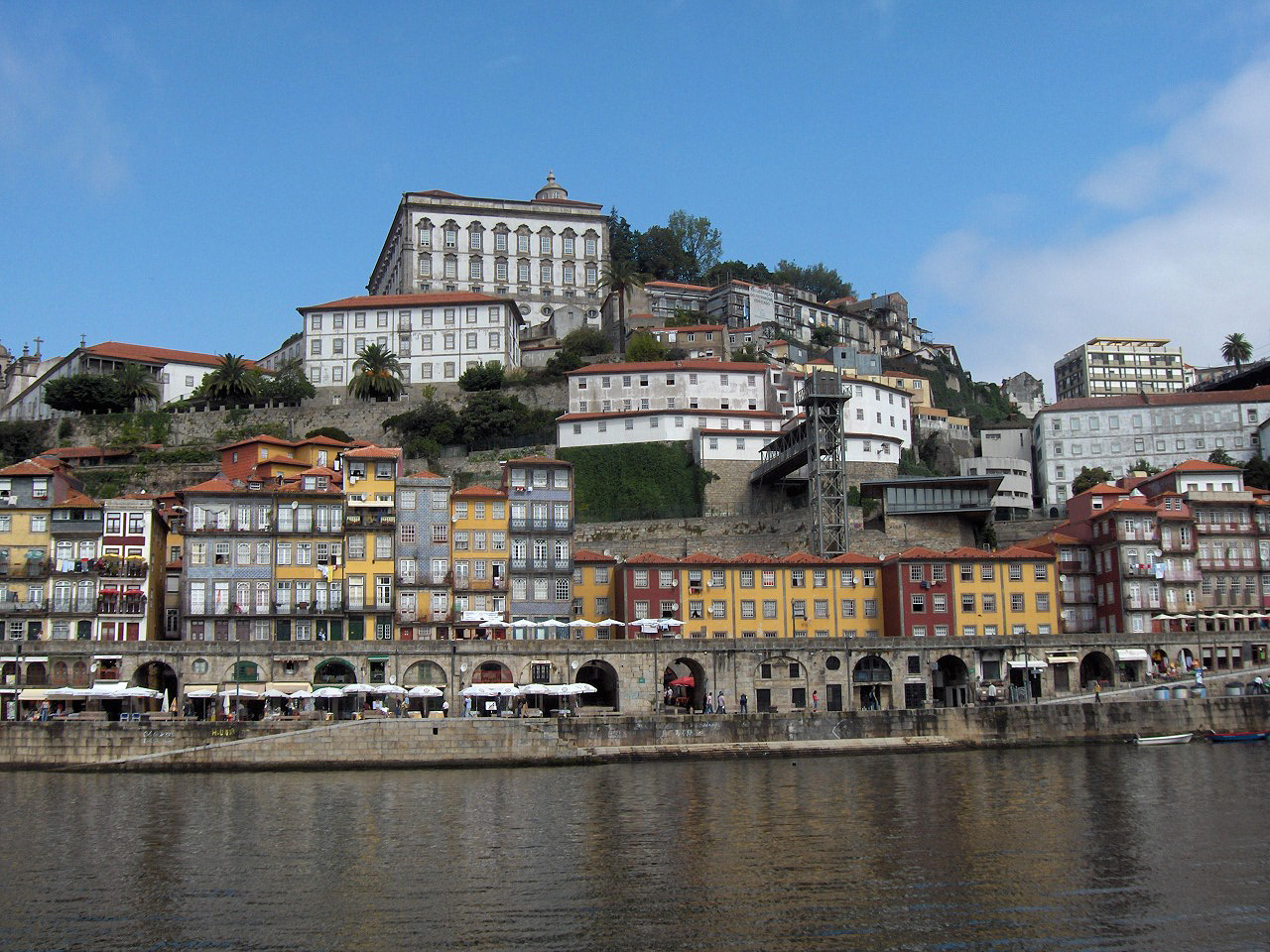 Ribeira and the former episcopal palace; Porto, Portugal